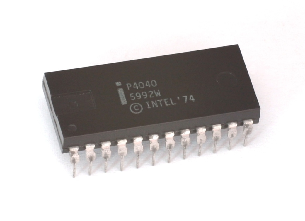 CPU Intel P4040 plastic DIP.